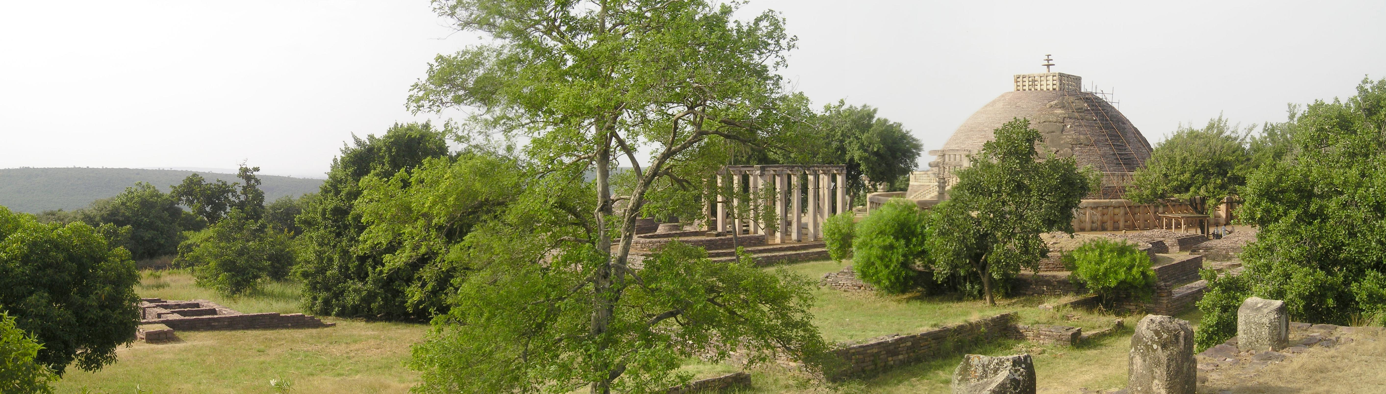 Panoramics in Madhya Pradesh